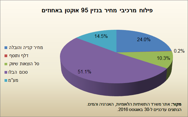 Gas price in Israel, by components, updated to August 2016.